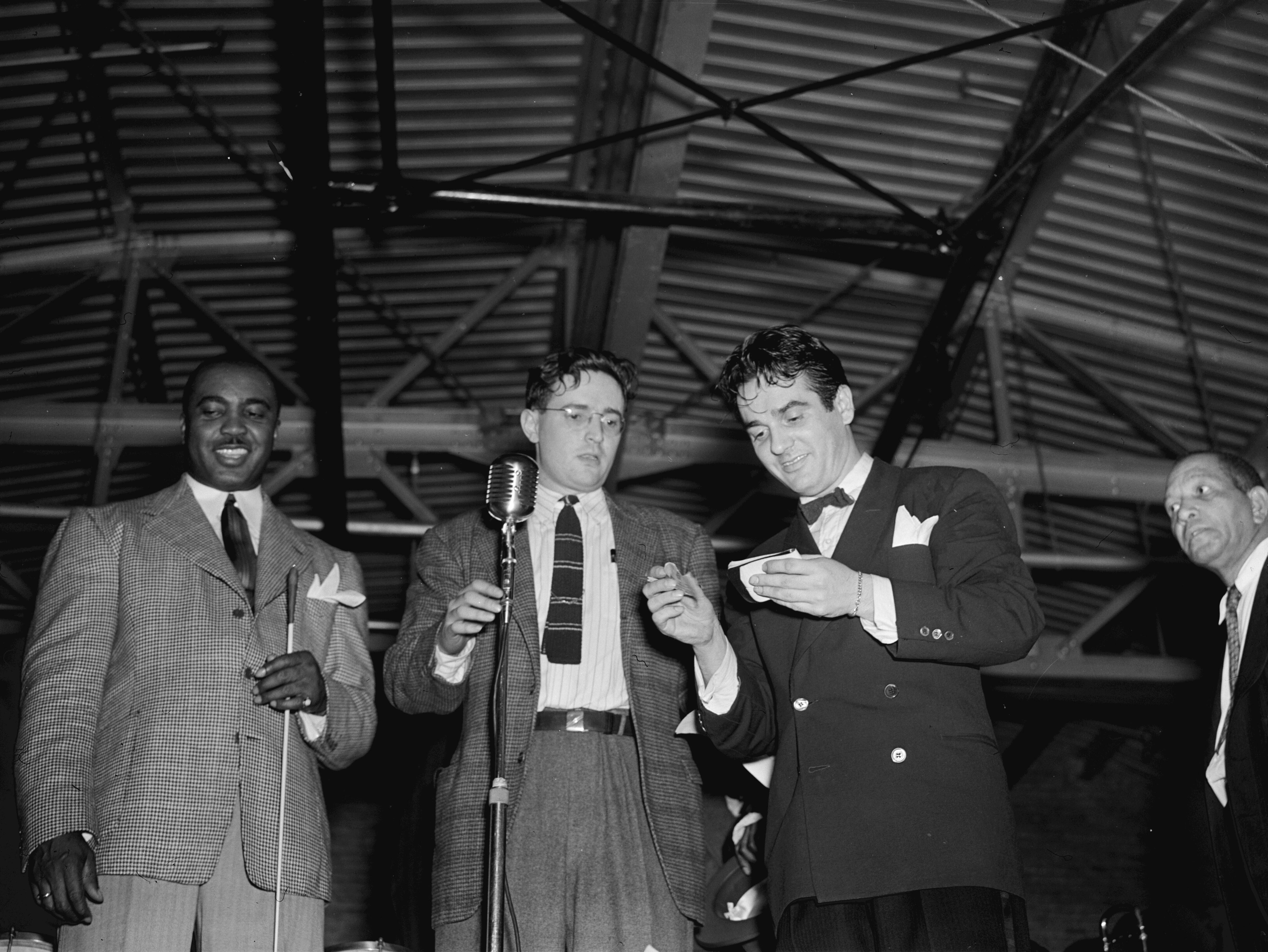 Jimmie Lunceford, William P. Gottlieb and Gene Krupa, ca. 1940. Photography by Celia Potofsky Gottlieb